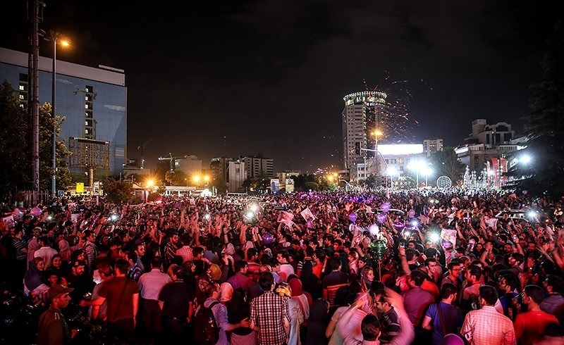 Hassan Rouhani's election celebrations